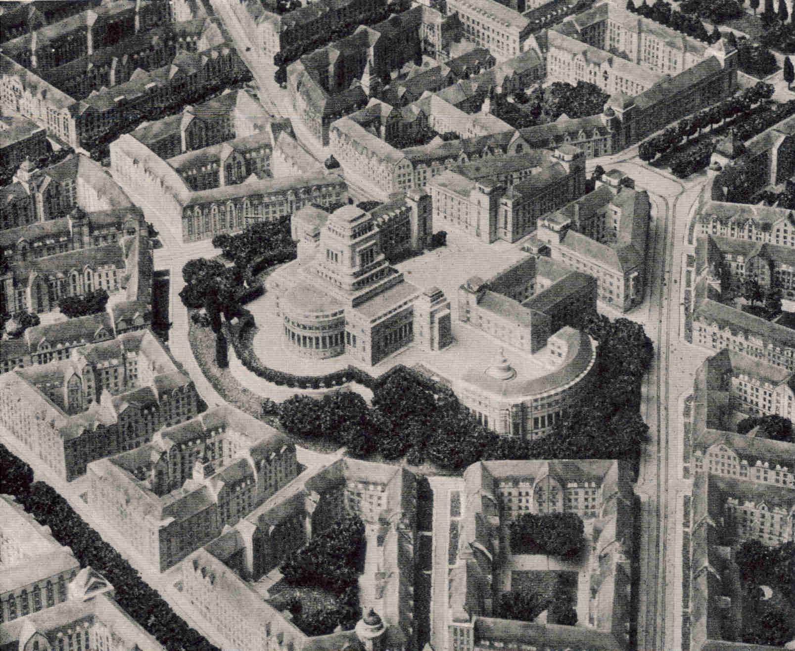 Photograph of a model of the Munksnäs-Haga plan